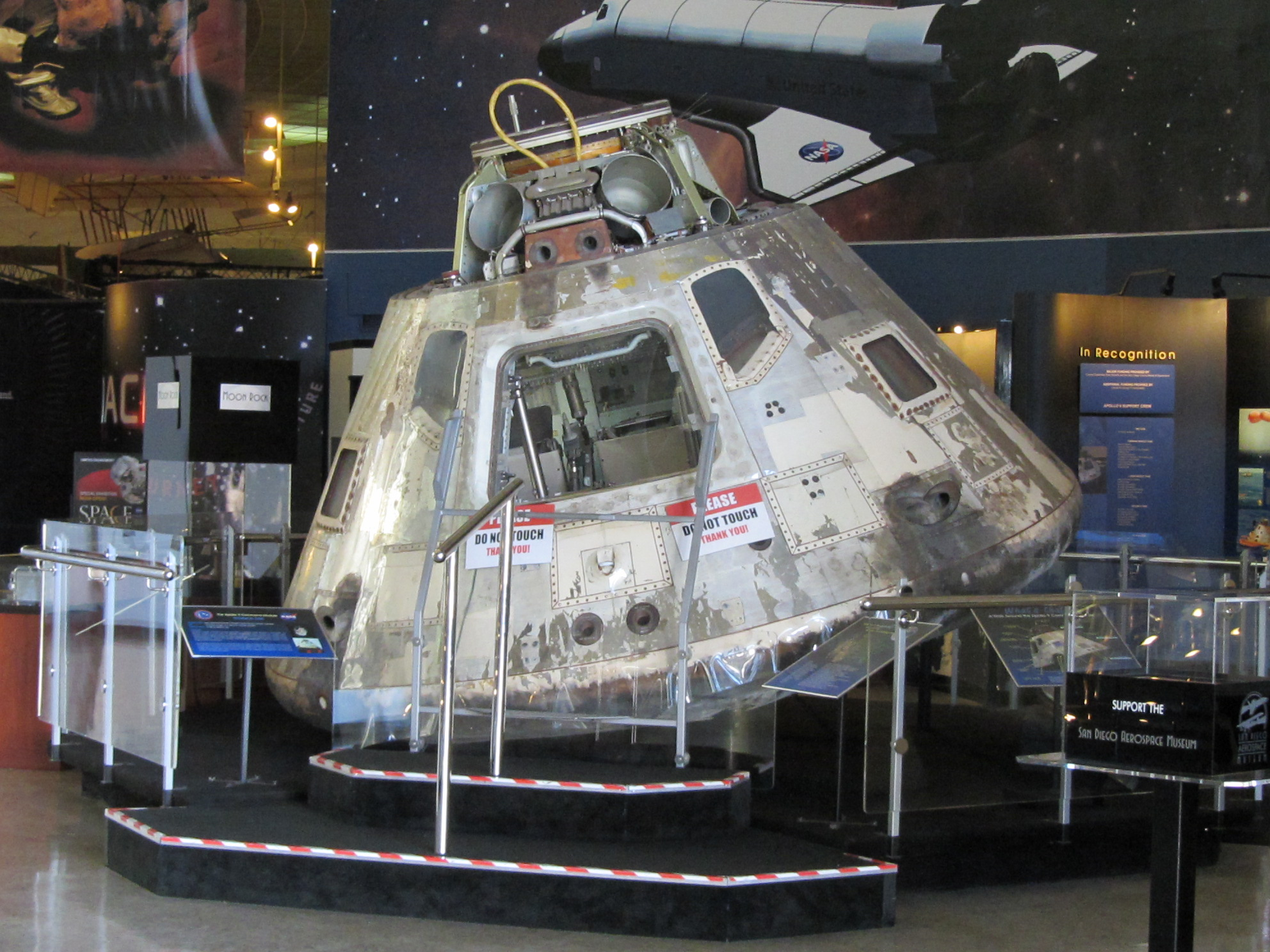 CSM-104 Apollo 9 AS-504 Gumdrop San Diego Air & Space Museum, San Diego, CA